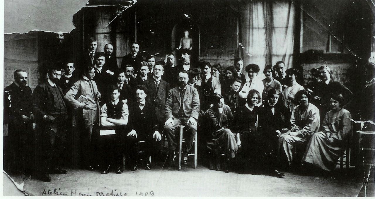 Matisse and his students, 1909; courtesty Nasjonalgalleriet, Oslo